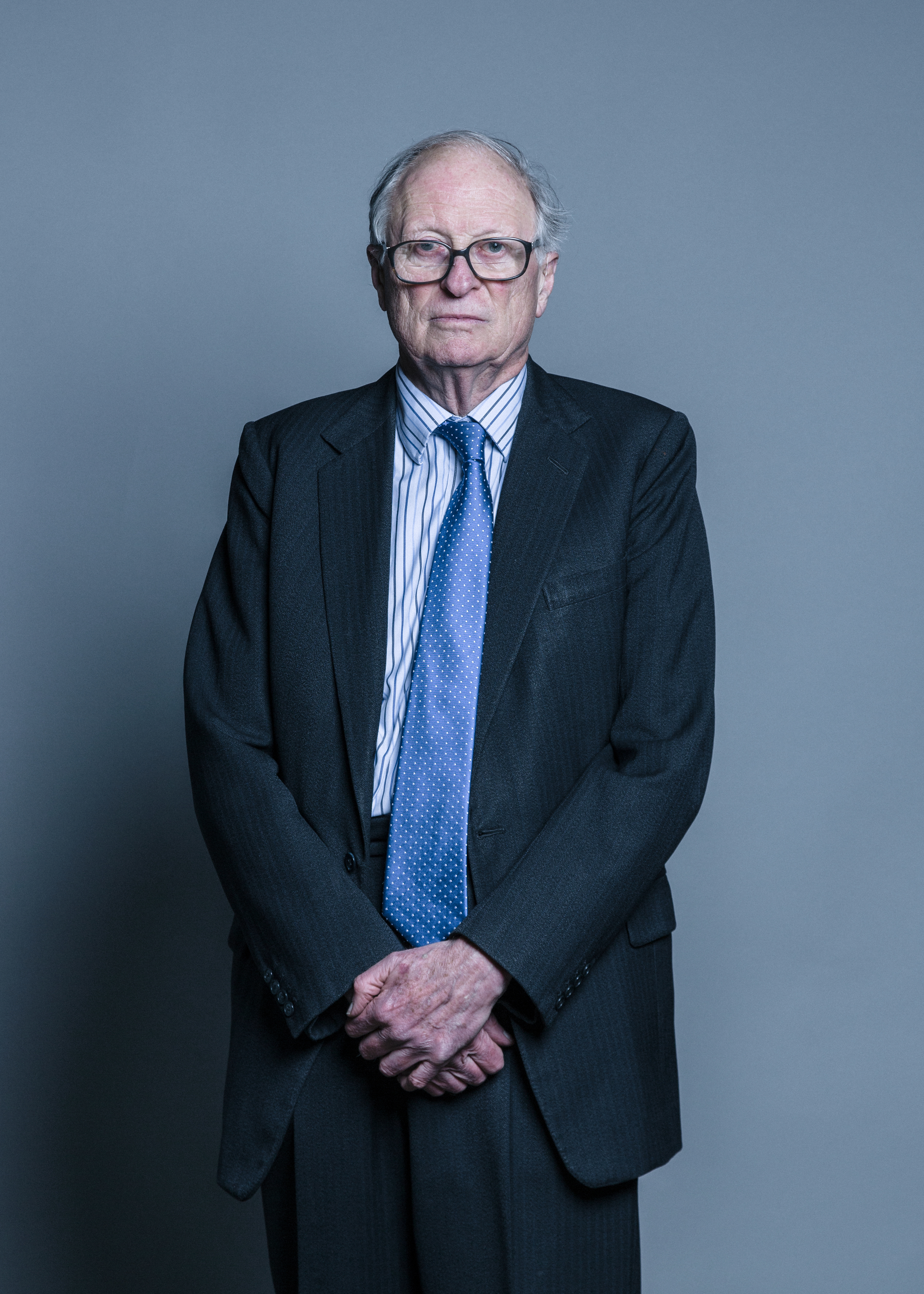 Official portrait of Lord Luce